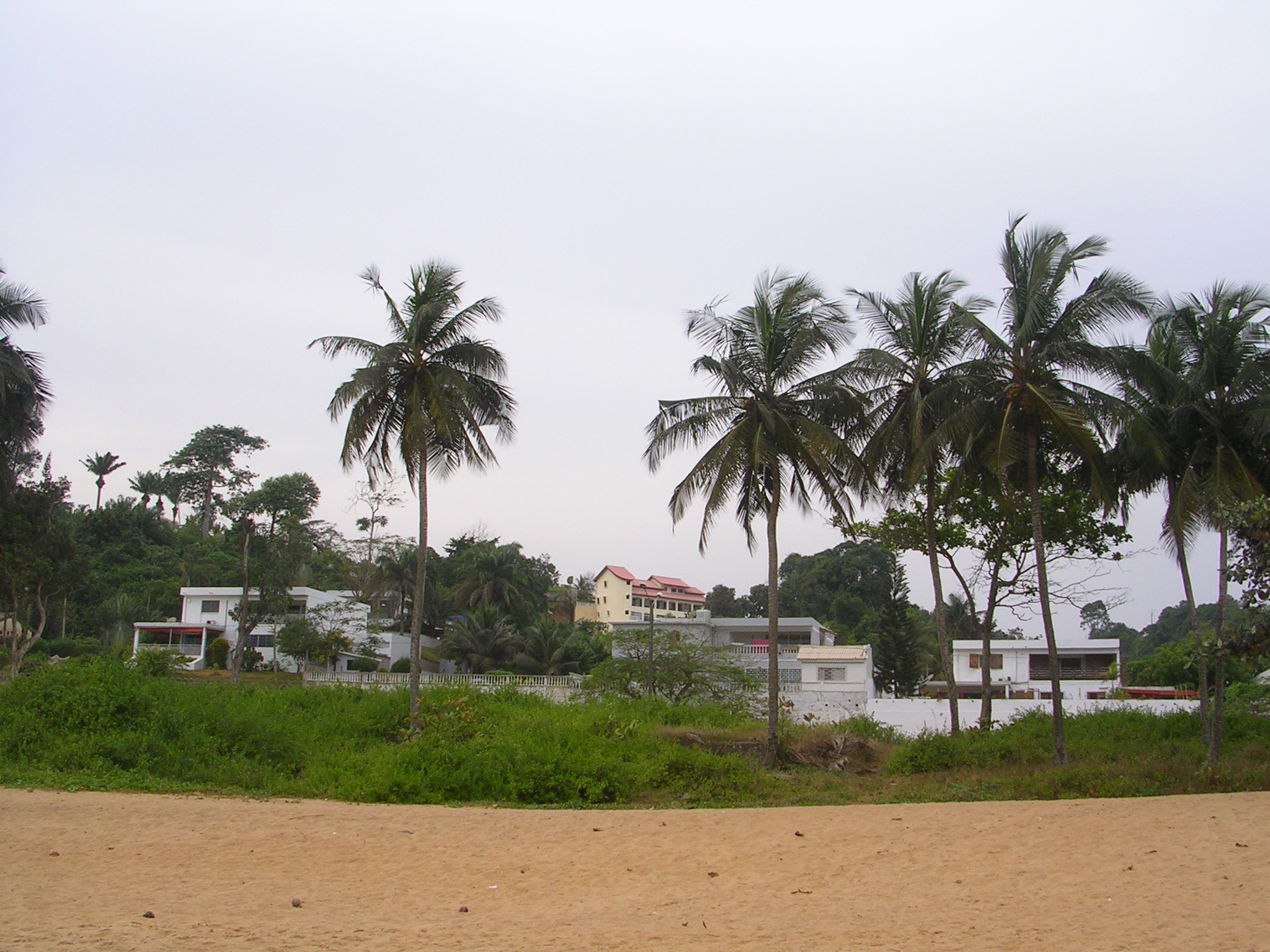 Hotel and restaurant at the beach.